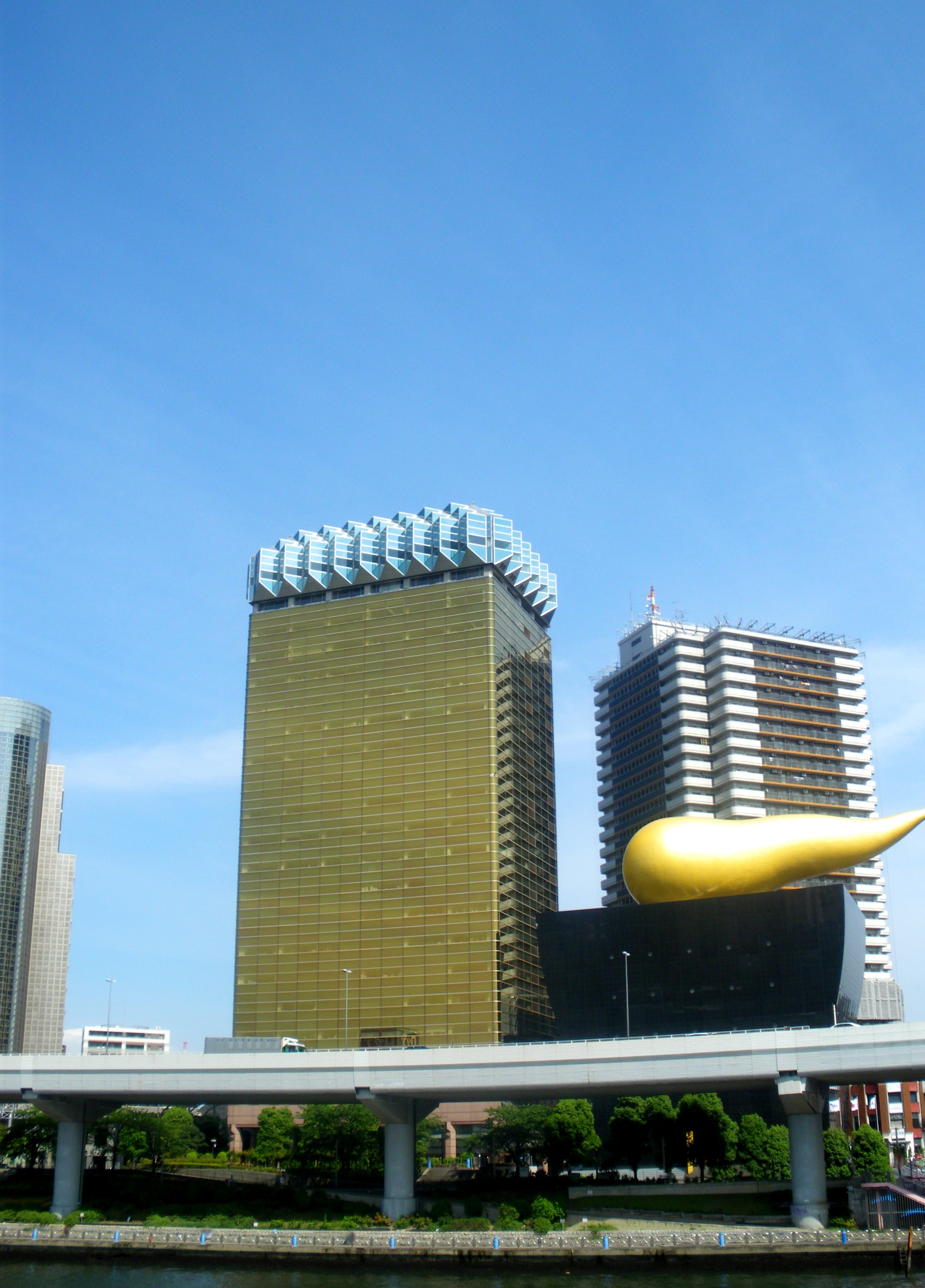 A Photo of the building of the Asahi Breweries( a famous Breweries in Japan) head office.